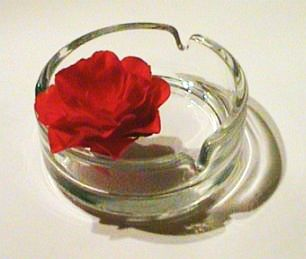 An ashtray with a rose, Logo of the World No Tobacco Day of the WHO